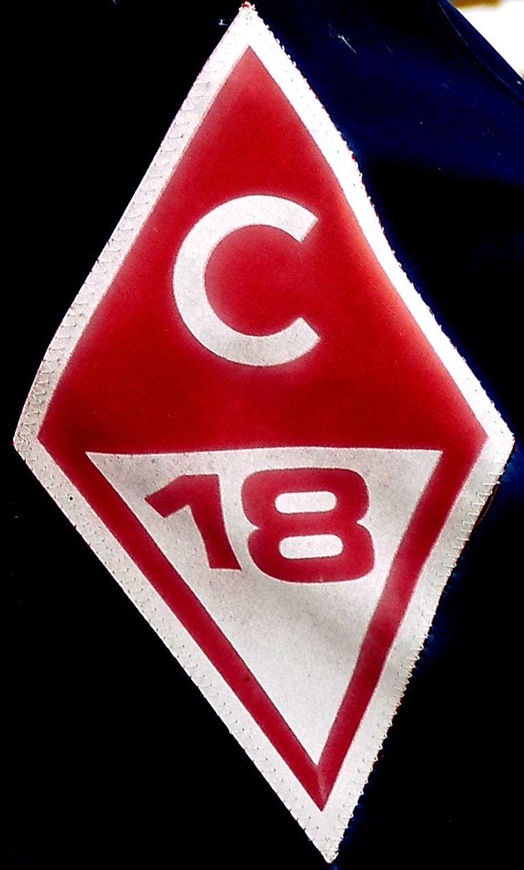 The Catalina 18 class sail badge.